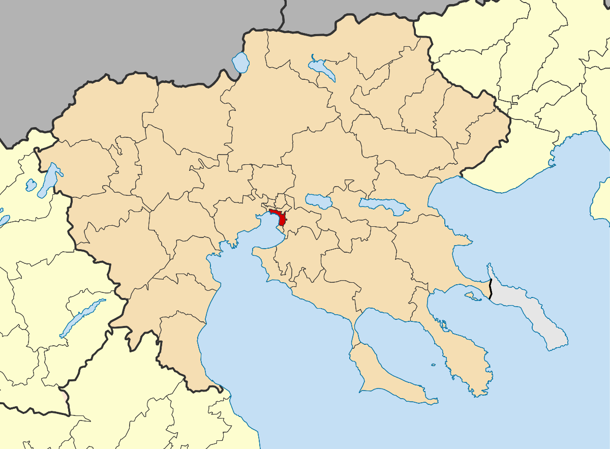 Locator map for Thessaloniki municipality in Greek region Central Macedonia (2011)